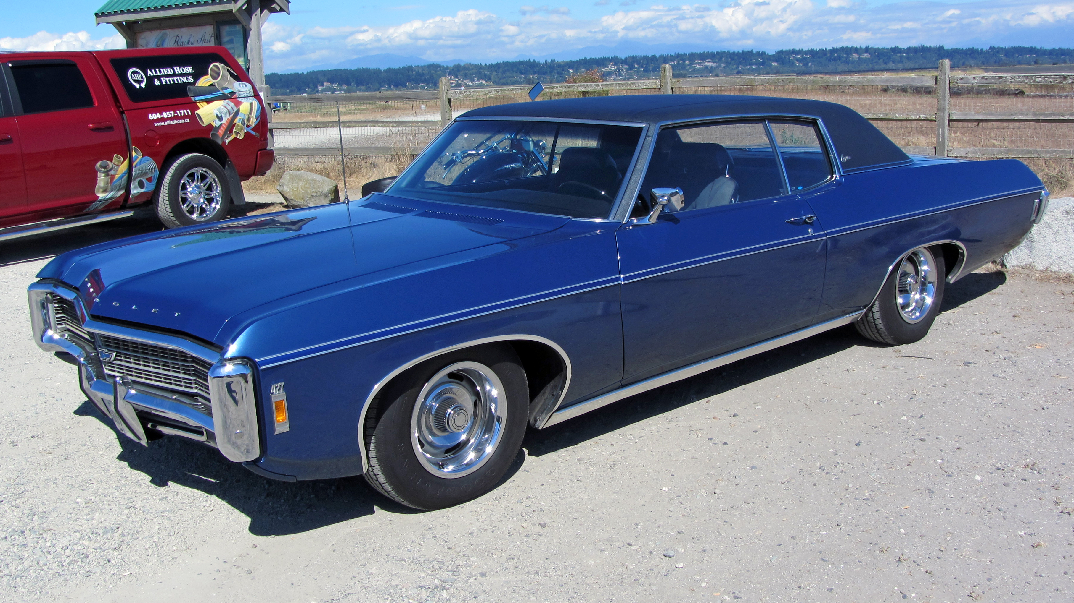 Seen in the parking lot at Blackie Spit, Surrey, B.C. near the Crescent Beach Concours d'Elegance.